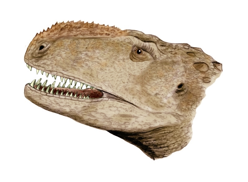 Abelisaurus comahuensis, an abelisaur from the late Cretaceous of Argentina, pencil drawing, digital coloring